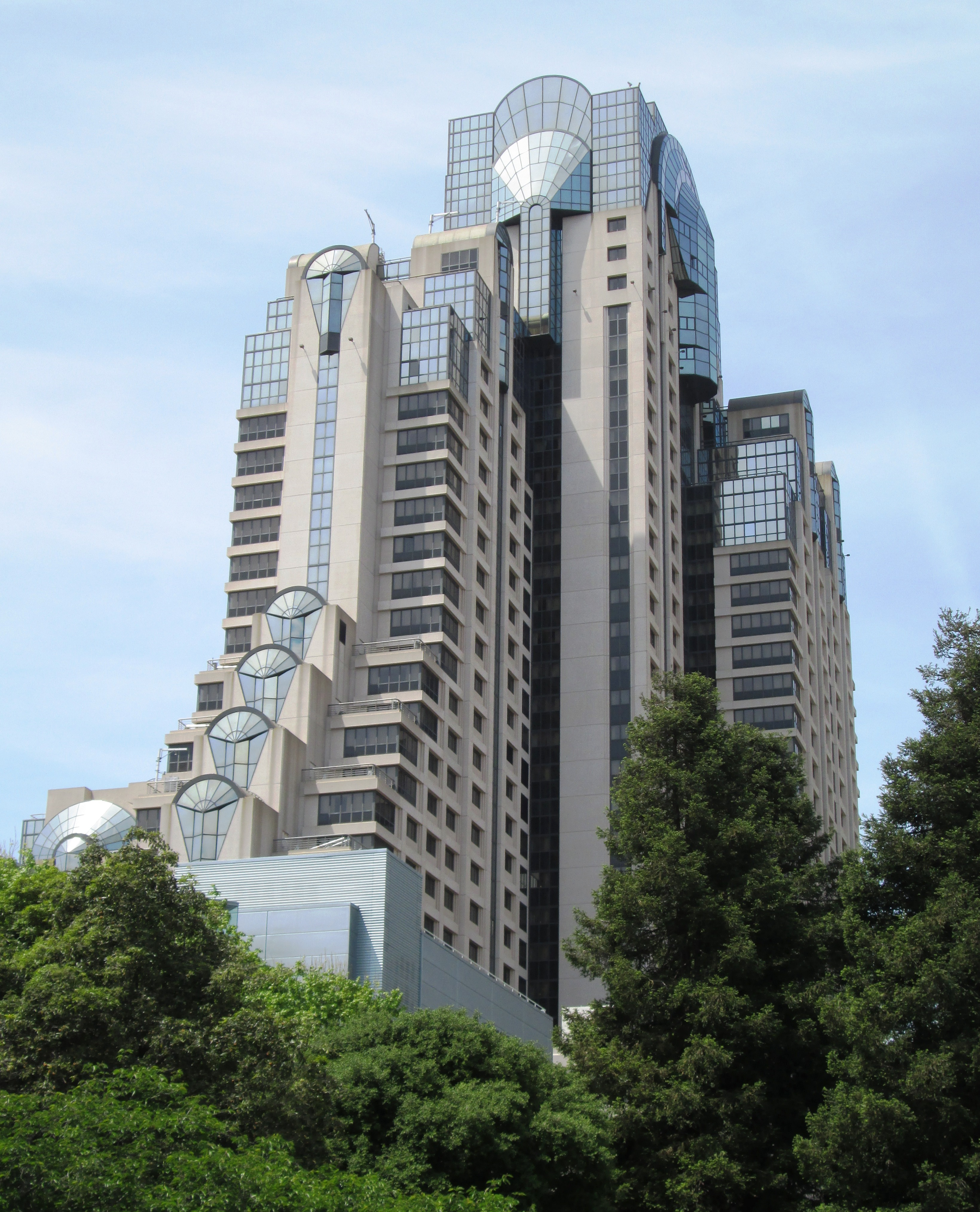 The San Francisco Marriott Marquis is located at 780 Mission Street between Fourth Street and Yerba Buena Lane in the South of Market (SoMa) neighborhood of San Francisco, California. It was built in 1989 and was designed by Zeidler Partnership Architects, Daniel Mann Johnson & Mendenhall, Anthony J. Lumsden and Martin Middlebrook Louie.